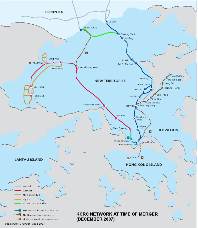 Map showing KCRC network at the time of the rail merger on 2 December 2007